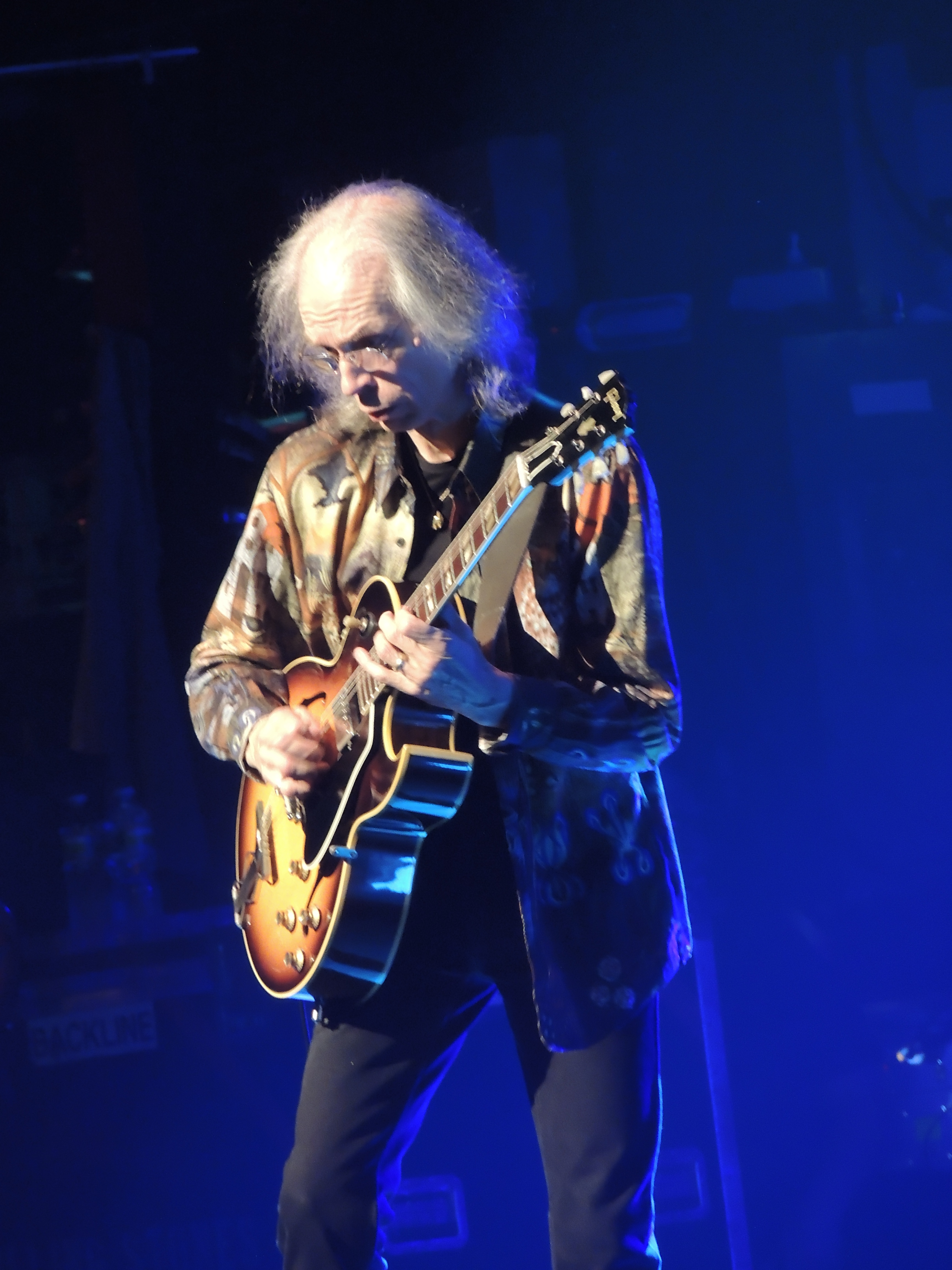 Steve Howe at the Beacon Theater on April 9, 2013.